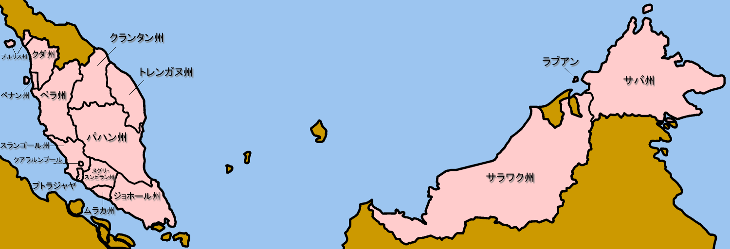 Map of the states of Malaysia in Japanese. Based on the map created User:Golbez, and on PD CIA material.